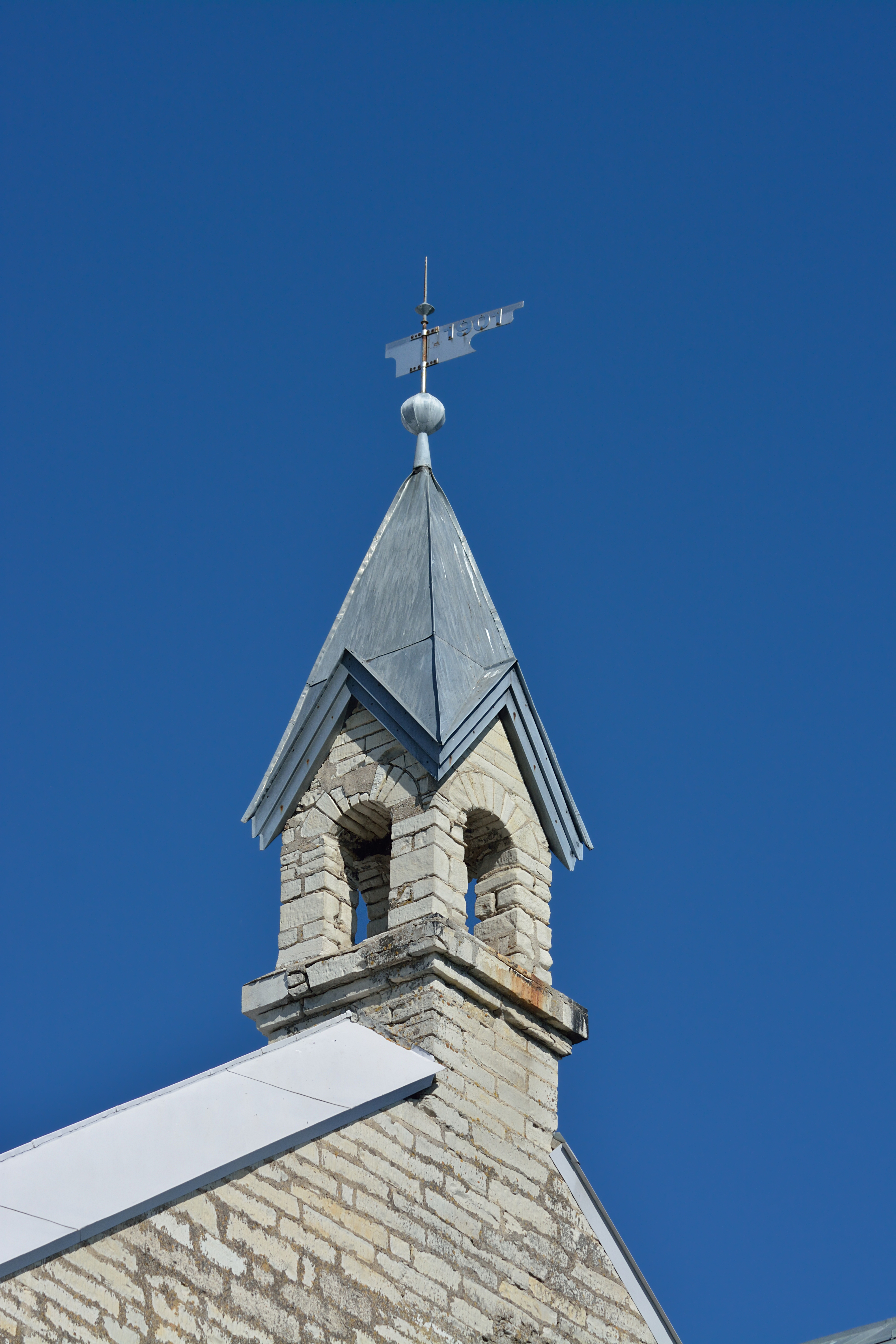 Chimney with weather vane, Rapla church